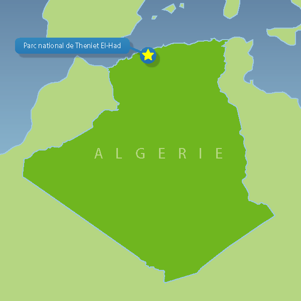 Map of National parks of Algeria, Theniet_El-Had National park